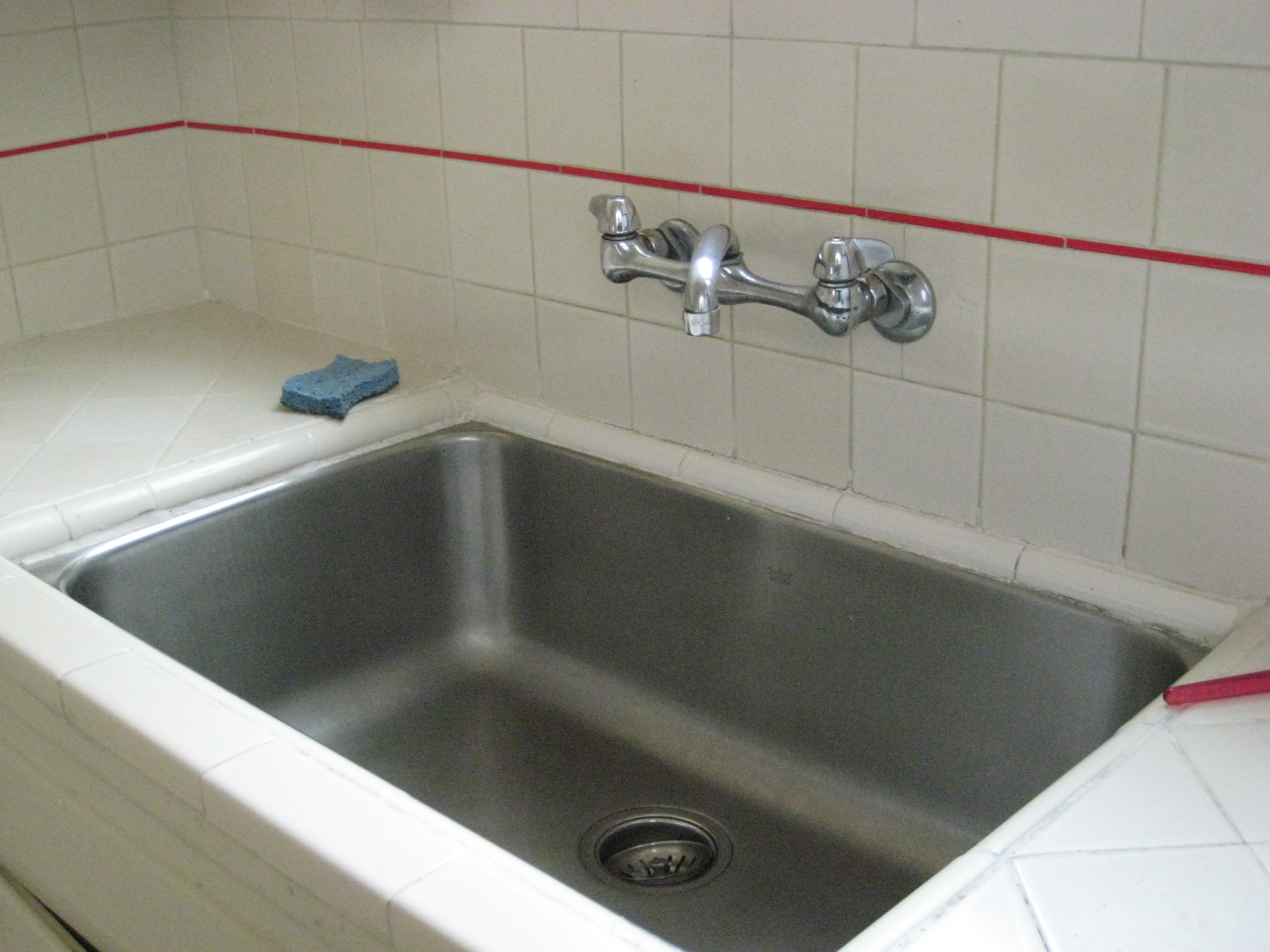 There is nothing here but the kitchen sink